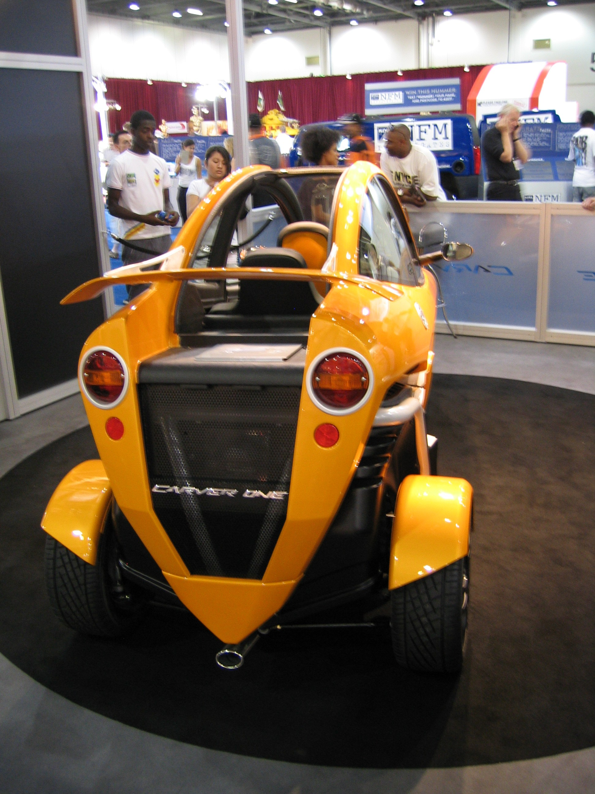 Carver One